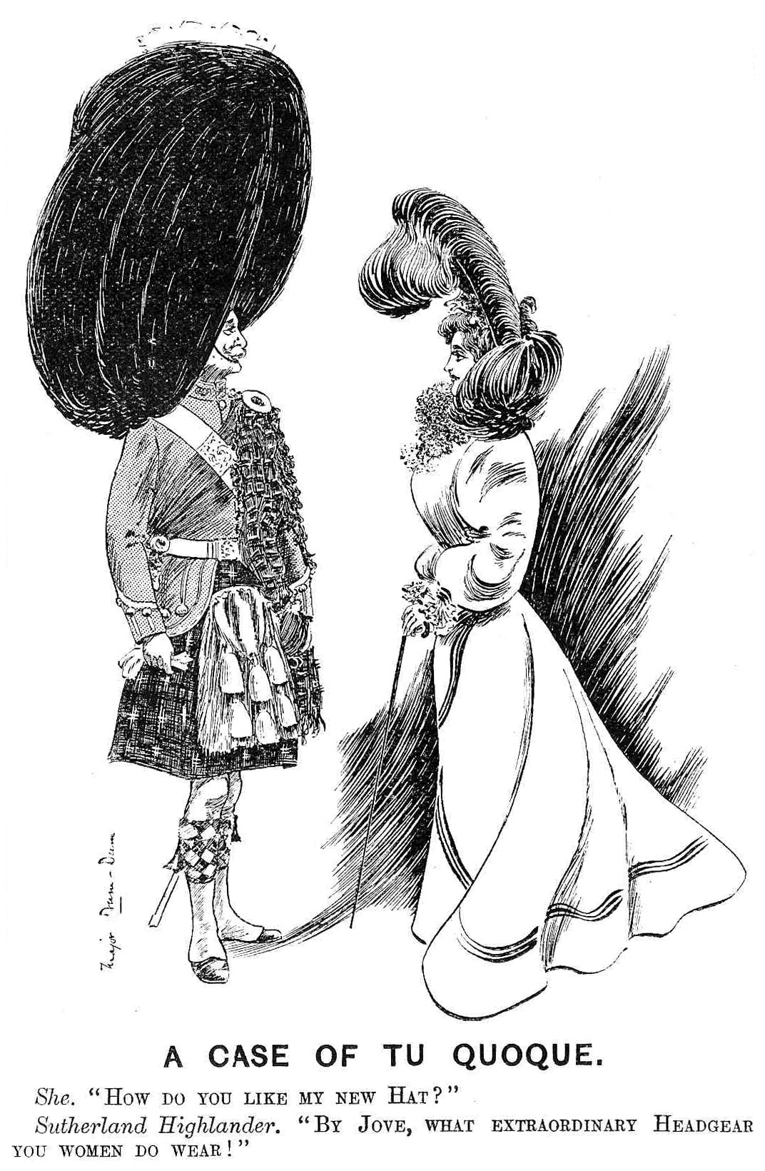 Ironic illustration showing Sutherland Highlander wearing exaggerated Feather bonnet observing "By Jove, what extraordinary headgear you women do wear!"